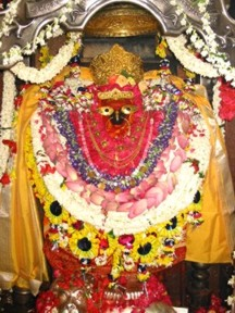 Great pious Shrine of MA VINDHYAWASINI, the starting point of Trikona Parikrama. Situated 7 kms away from the city Mirzapur.